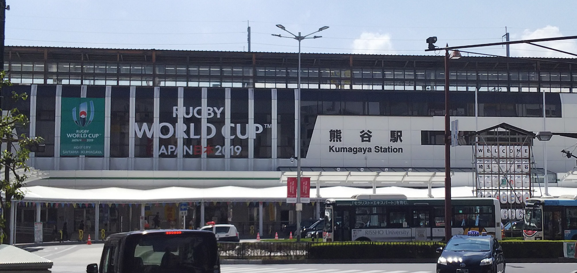 KumagayaStation(Saitama,Japan) Front(North)Gate